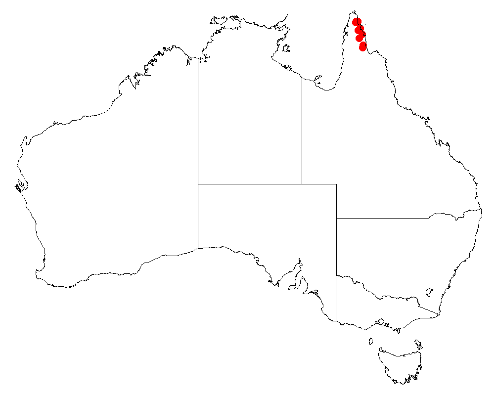 Parsonsia blakeana Occurrence data for Australia from Australasian Virtual Herbarium downloaded 22 December 2018